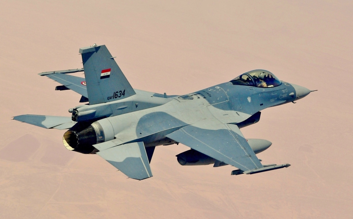 An Iraqi Air Force F-16 Fighting Falcon flies over an undisclosed location, July 18, 2019. U.S. Airmen assigned to the 370th Air Expeditionary Advisory Group integrate with Iraqi Air Force operations to advise, assist and mature their counterparts to defend against future adversaries and enhance stability in the region. The Coalition operates in close coordination with and by the invitation of the Government of Iraq. (U.S. Air Force photo by Staff Sgt. Chris Drzazgowski)